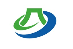 Flag of Hoki Tottori